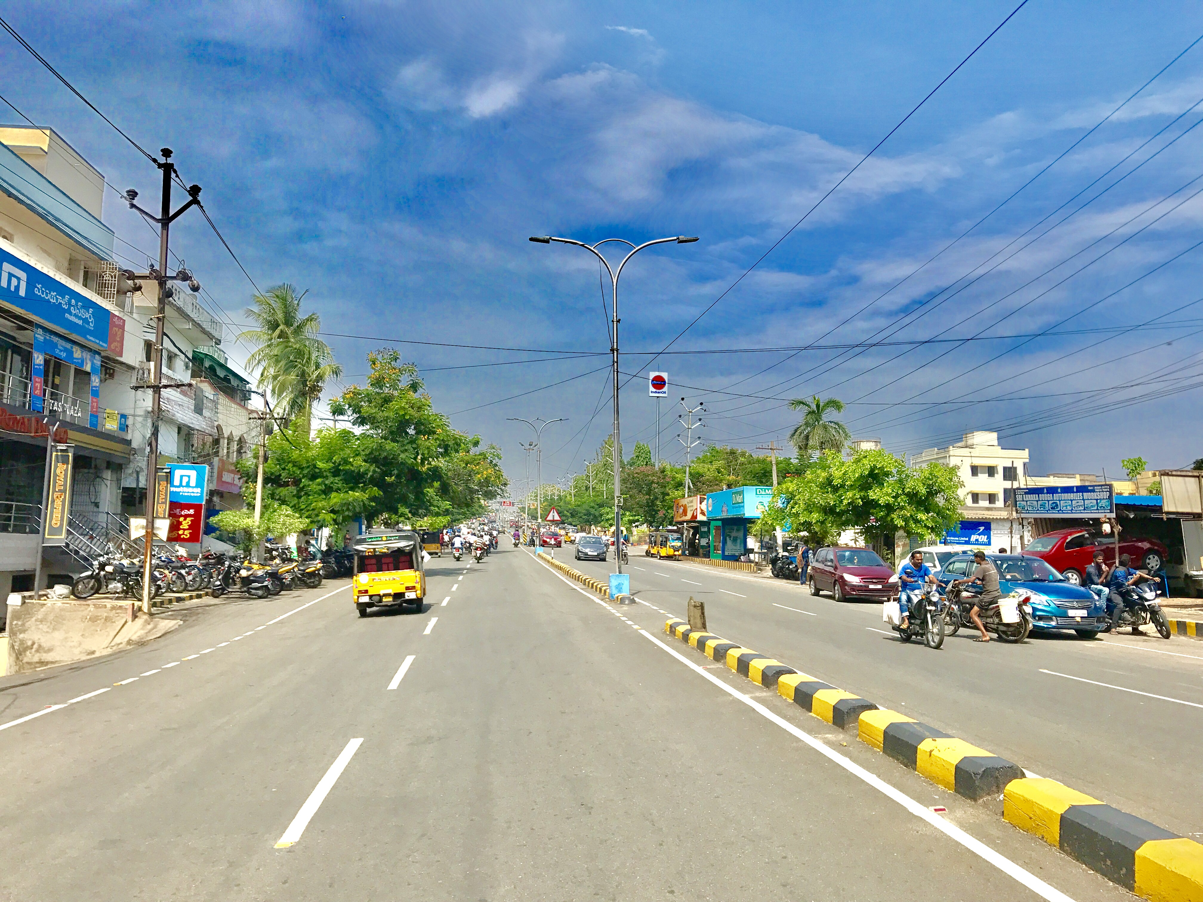 Karachettu Road in Visakhaptnam